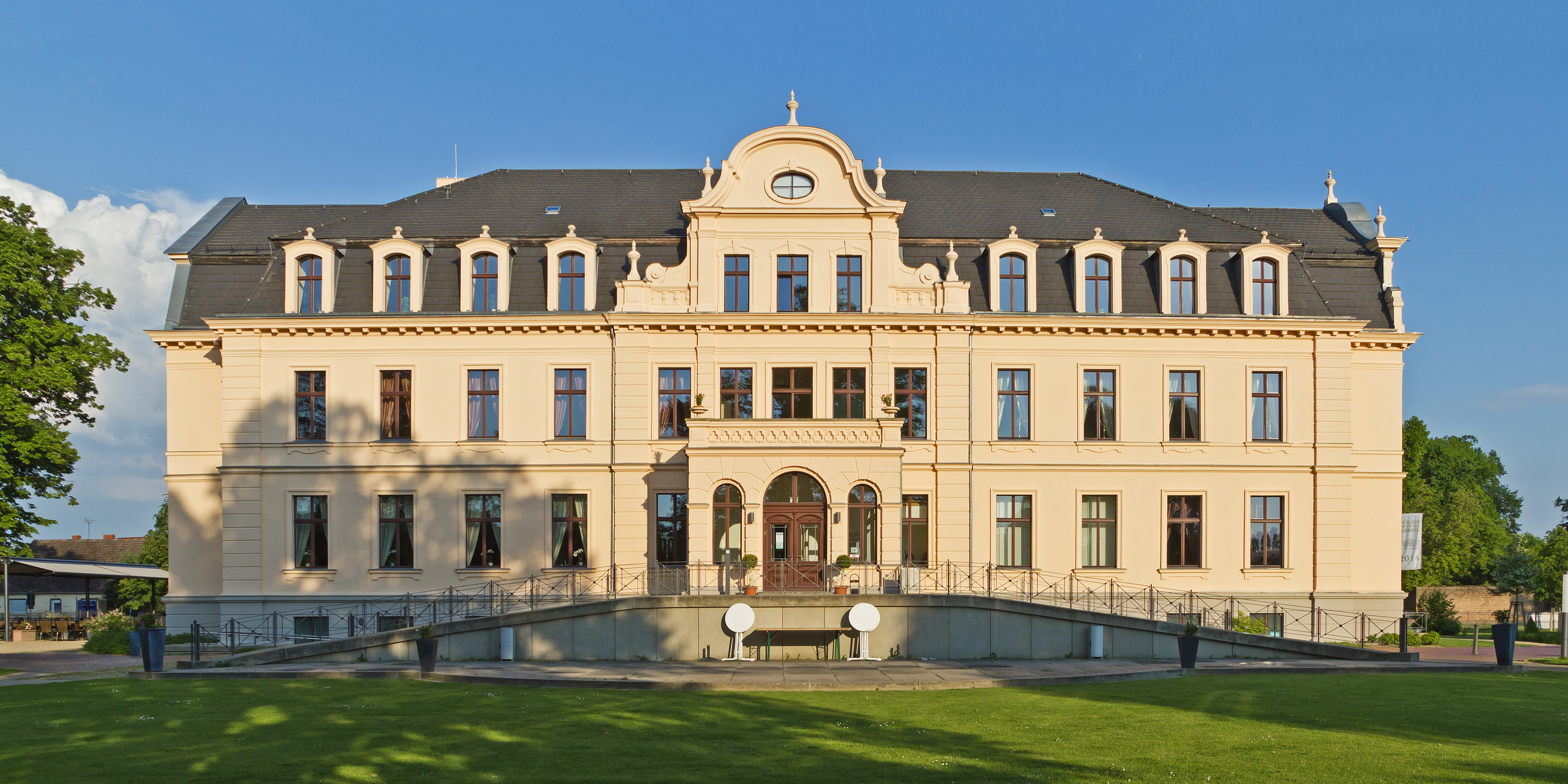 Ribbeck (Nauen), Brandenburg, Germany: Ribbeck Manor